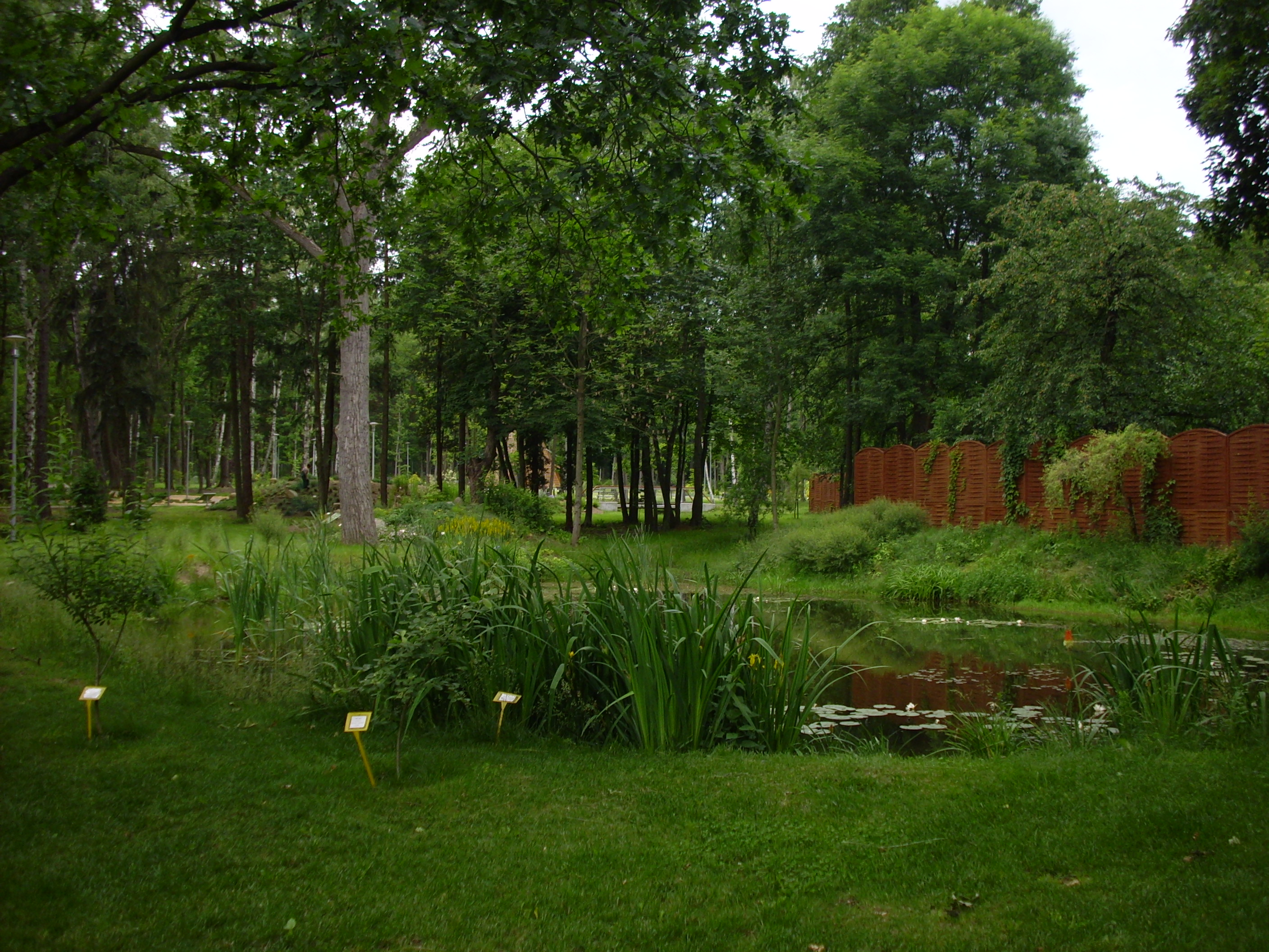 Pond in Botanic Garden.